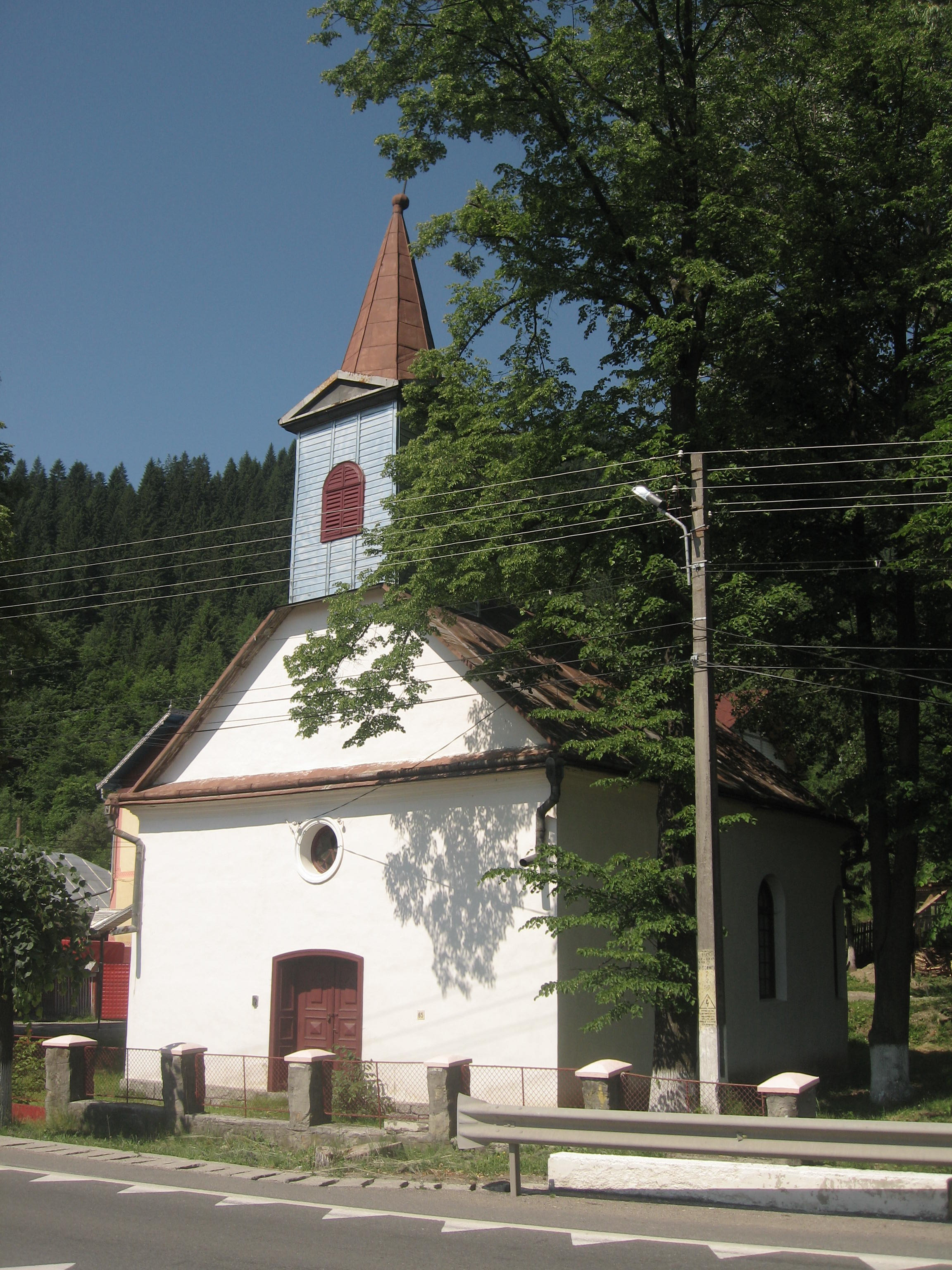 The Roman-Catholic Church in Prisaca Dornei